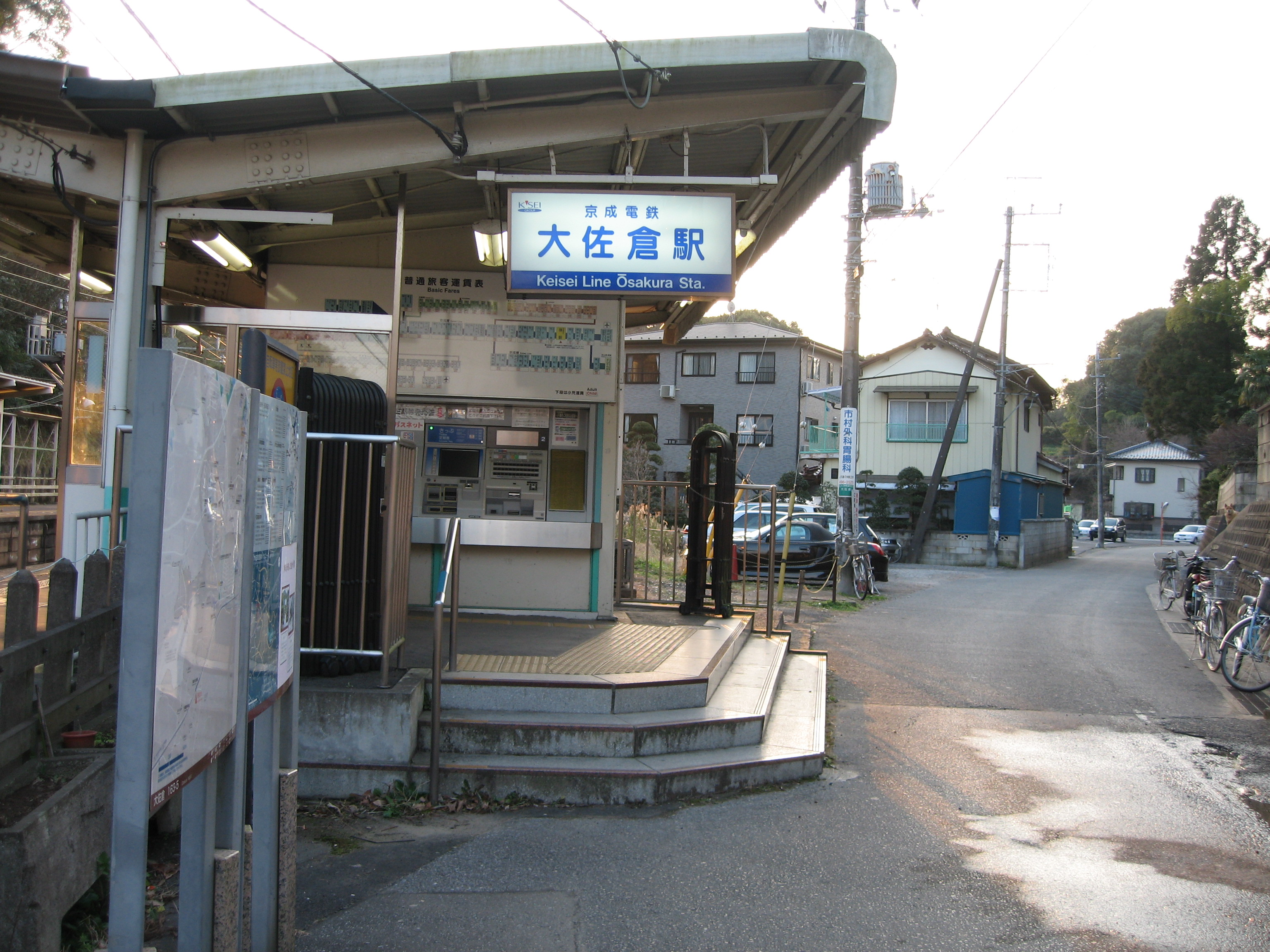 Osakura Station on Keisei Main Line, in Chiba, Japan